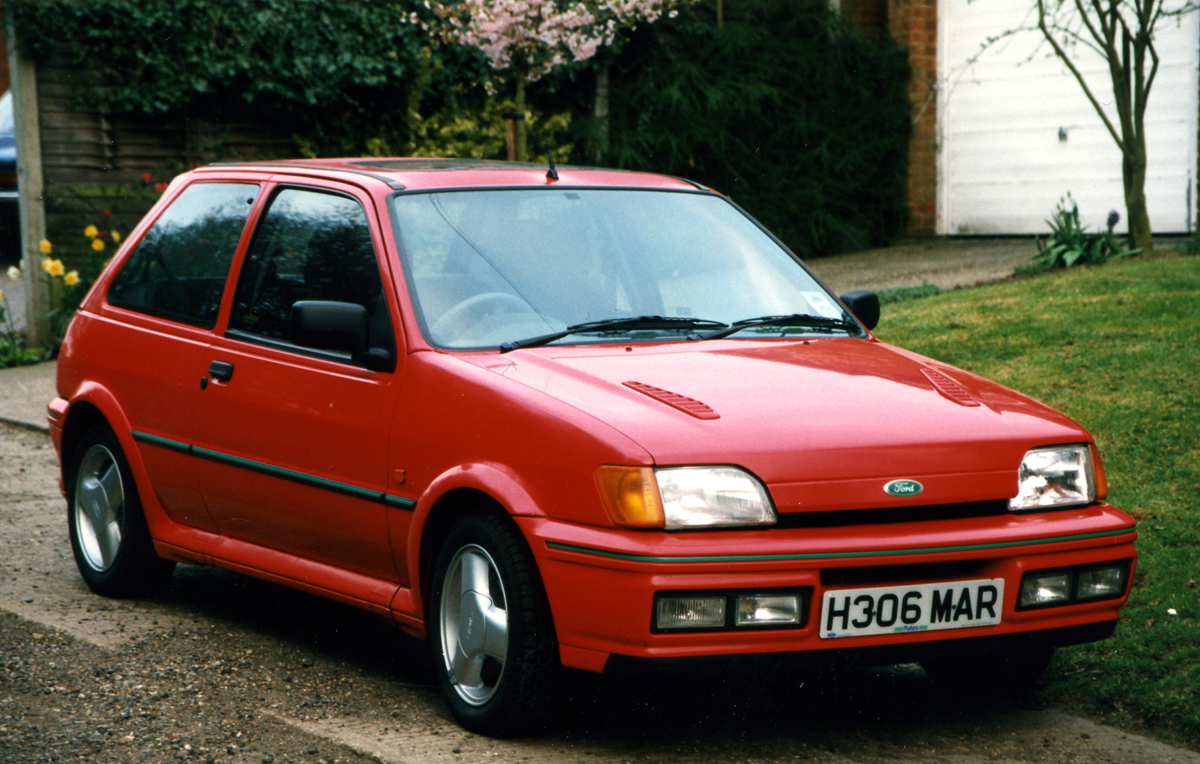 1991 Ford Fiesta RS Turbo (RHD) Radiant Red